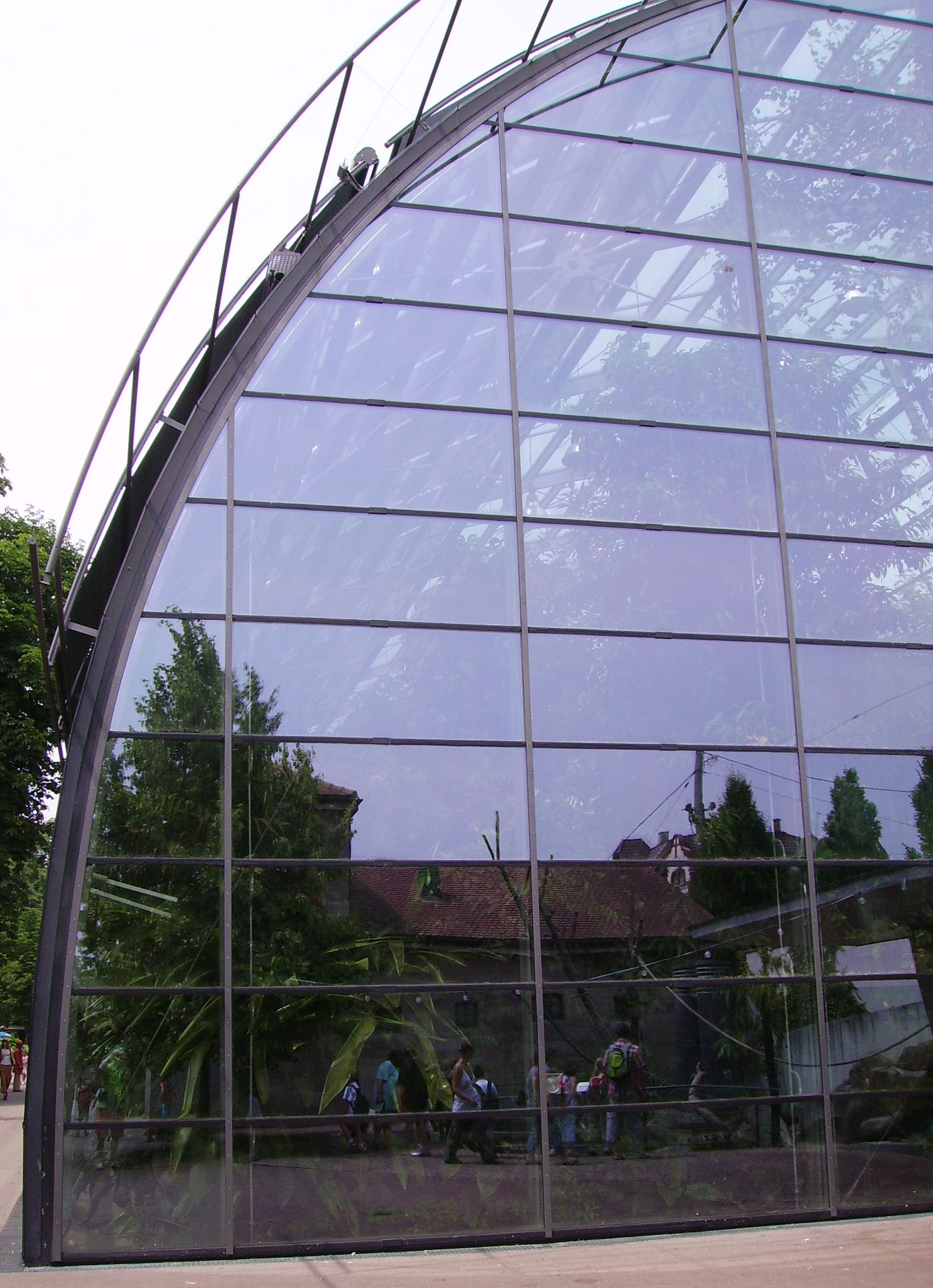 zoological garden and botanical garden Wilhelma in Stuttgart, Germany